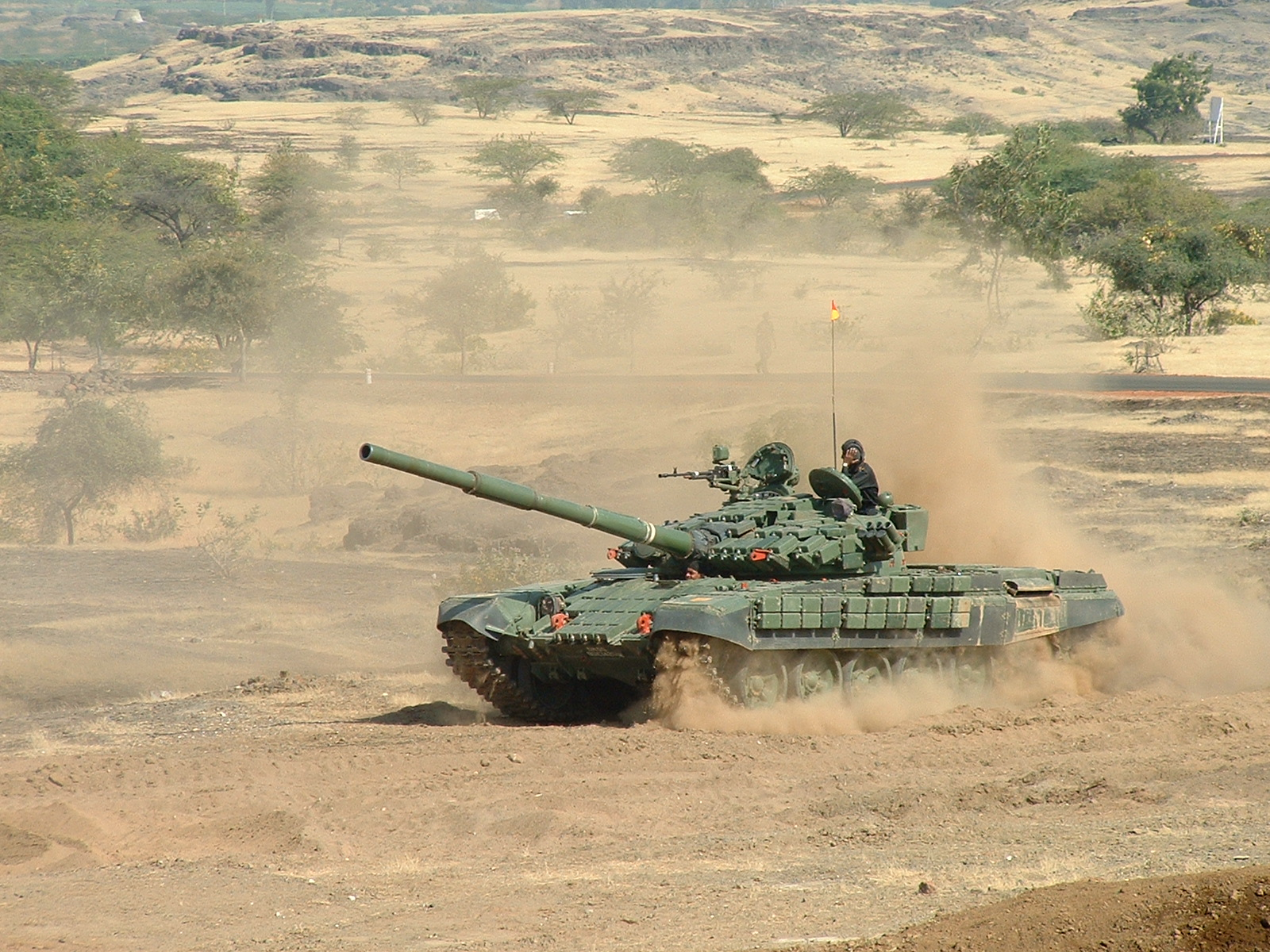 T72M 'Ajeya' Main Battle Tank